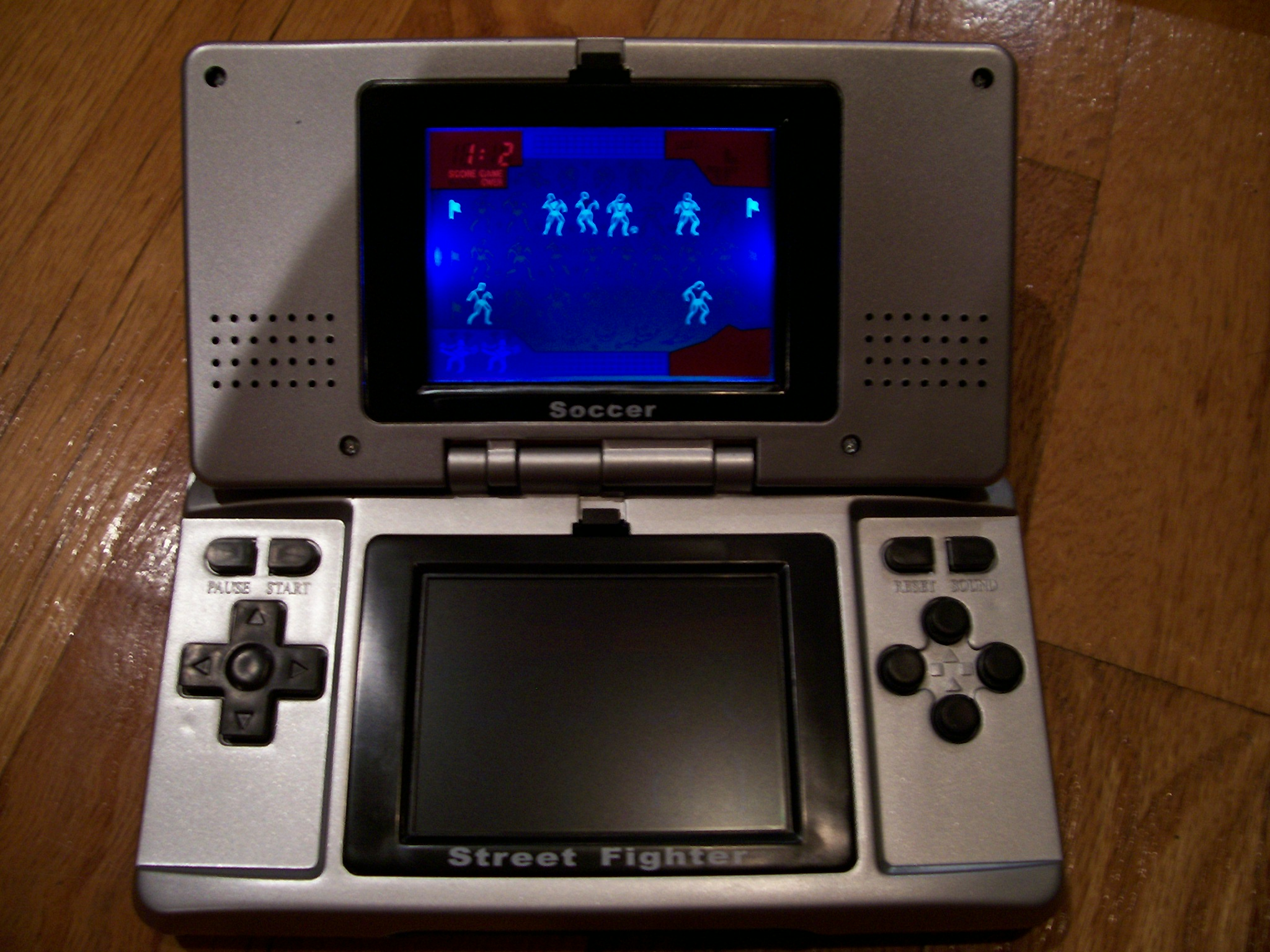 Picture of my Neo Double Games.